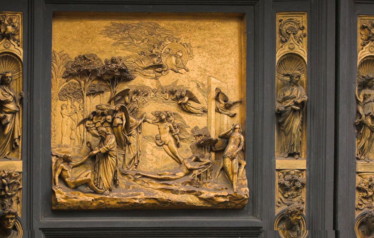 A panel of Adam and Eve in Ghiberti's "Gate's of Paradise". Photo by Thermos.